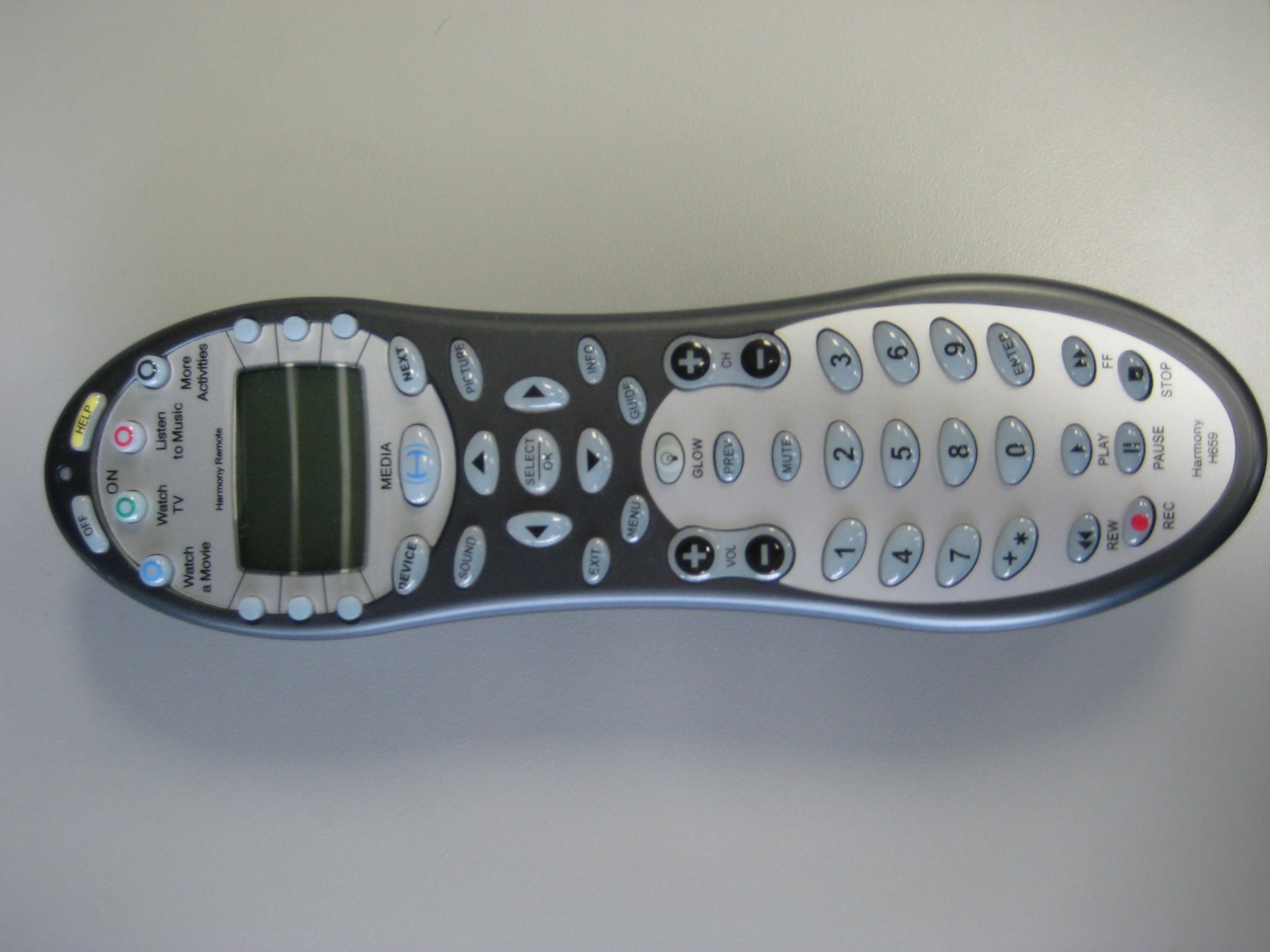 Logitech Harmony 659 Remote